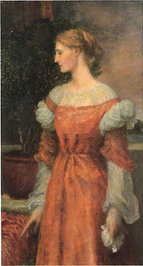 Portrait of Lina Duff Gordon, later Waterfield, in a ball gown after Leonardo da Vinci